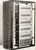 This was the Statistical unit of the CER-10 computer from M.Pupin Institute, Belgrade E-mail permission of the Marketing Dept of the M.Pupin Institute, Belgrade. See